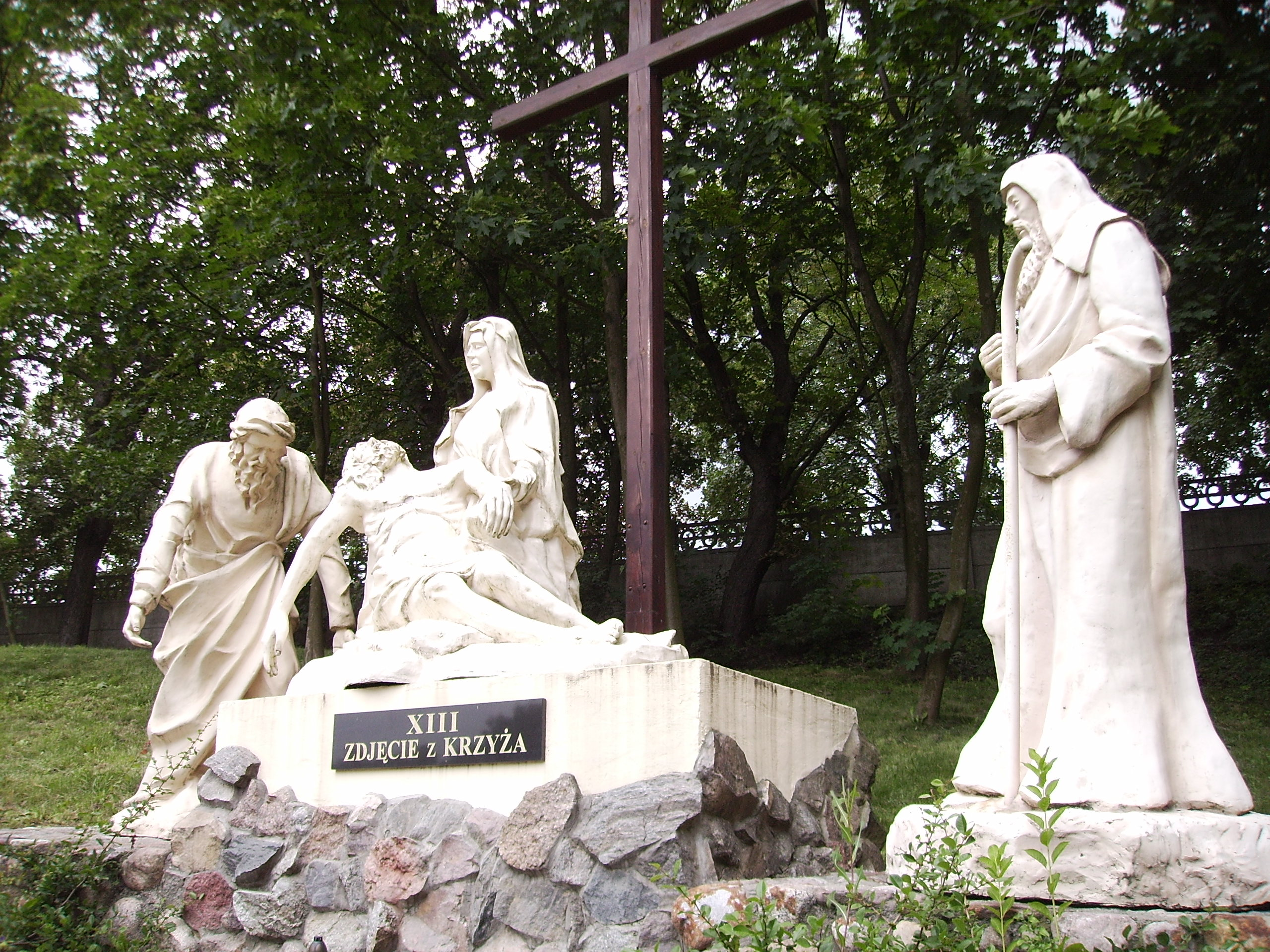 Obory